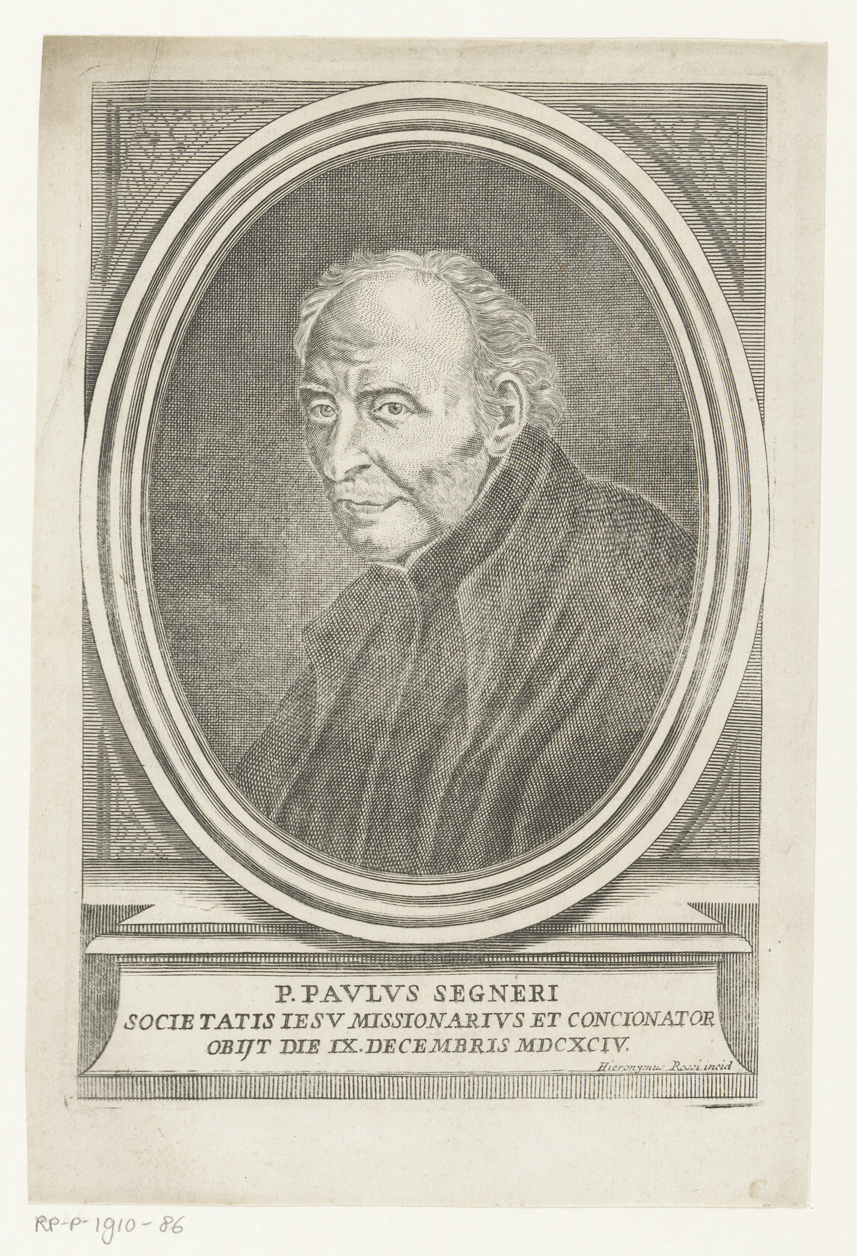 Portrait of Paolo Segneri (1624-1694)